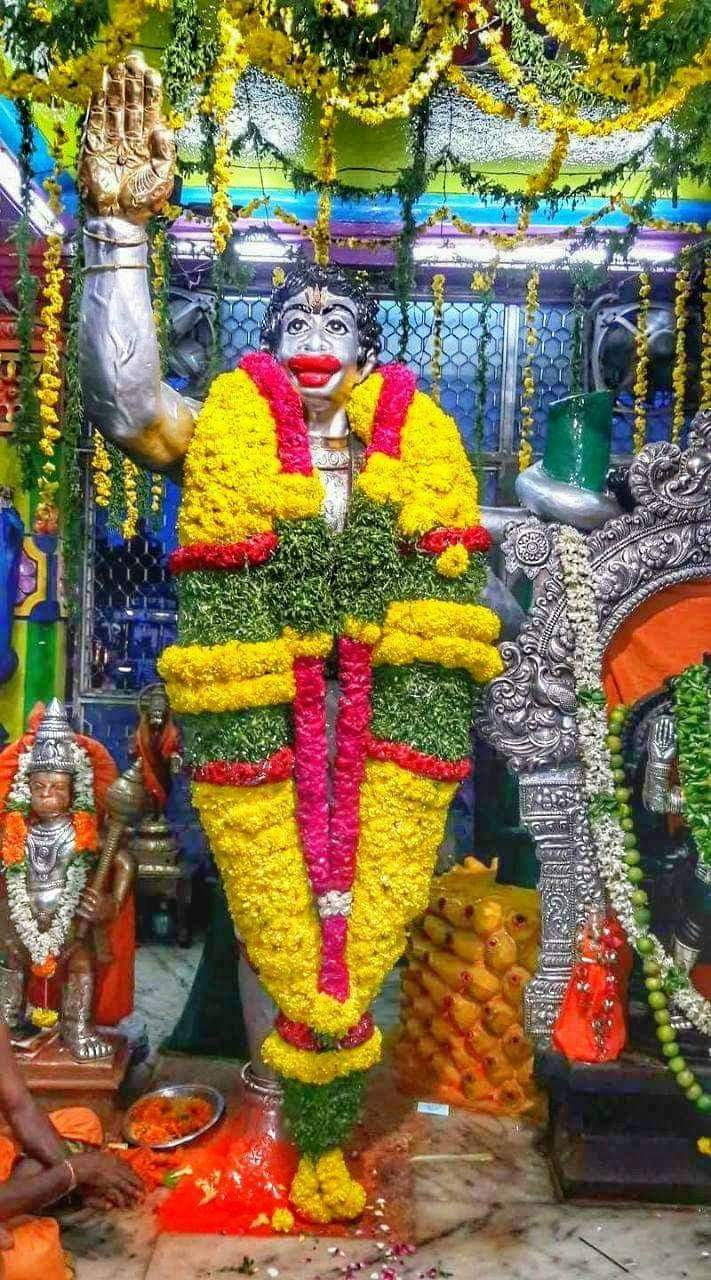 Swami in decorated state , Swami is decorated everyday to be special and looks great.